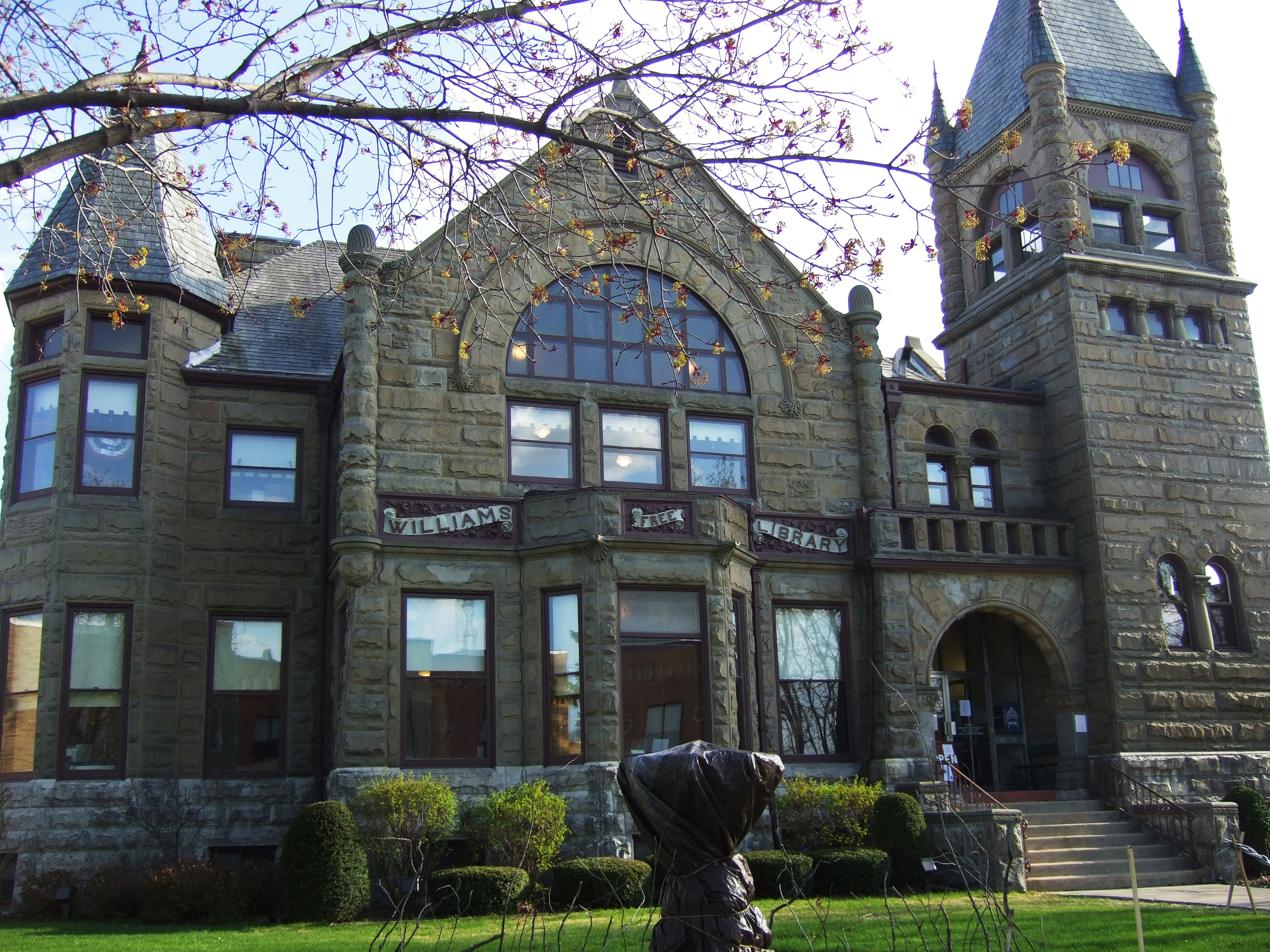 Williams Free Library, Beaver Dam, Wisconsin. Designed by Walter Holbrook of Edward Townsend Mix & Co. in Milwaukee in the Richardsonian Romanesque style and constructed in 1890-91, it now houses the Dodge County Historical Society Museum. It is listed in the National Register of Historic Places.